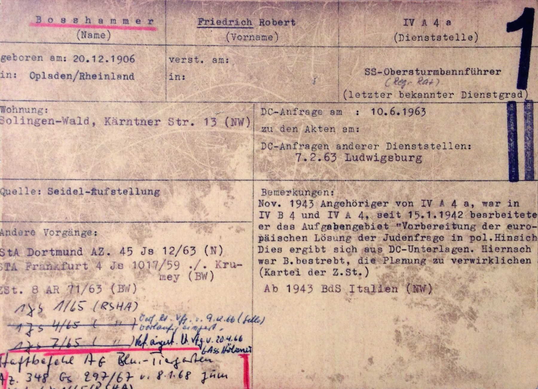 Index card for Friedrich Boßhammer kept by police during RSHA investigations conducted after World War II. Boßhammer was sentenced to life imprisonment.